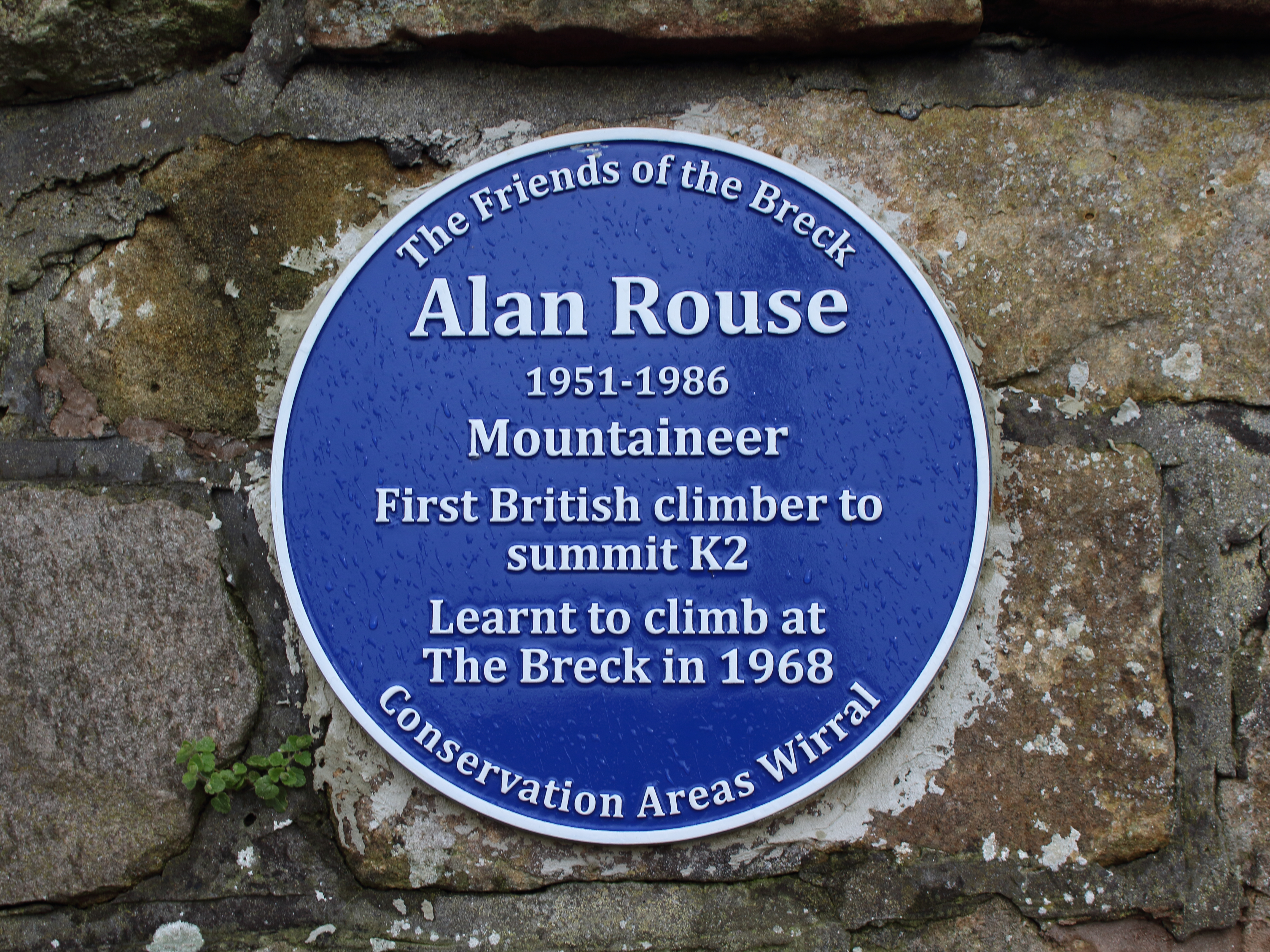 Plaque to Alan Rouse, first Briton to climb K2.